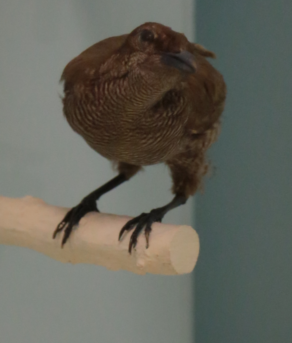 Magnificent Bird-of-paradise (Female), Cicinnurus magnificus, Birds Gallery, Natural History Museum, London